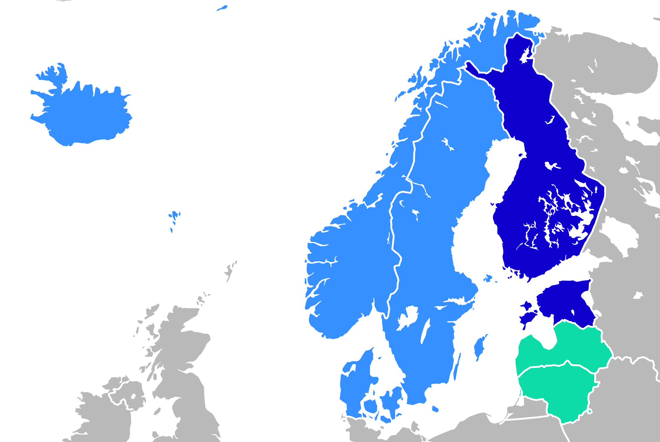 Majority language branches in the countries of the NB8 in Northern Europe: North Germanic, Finnic, Baltic